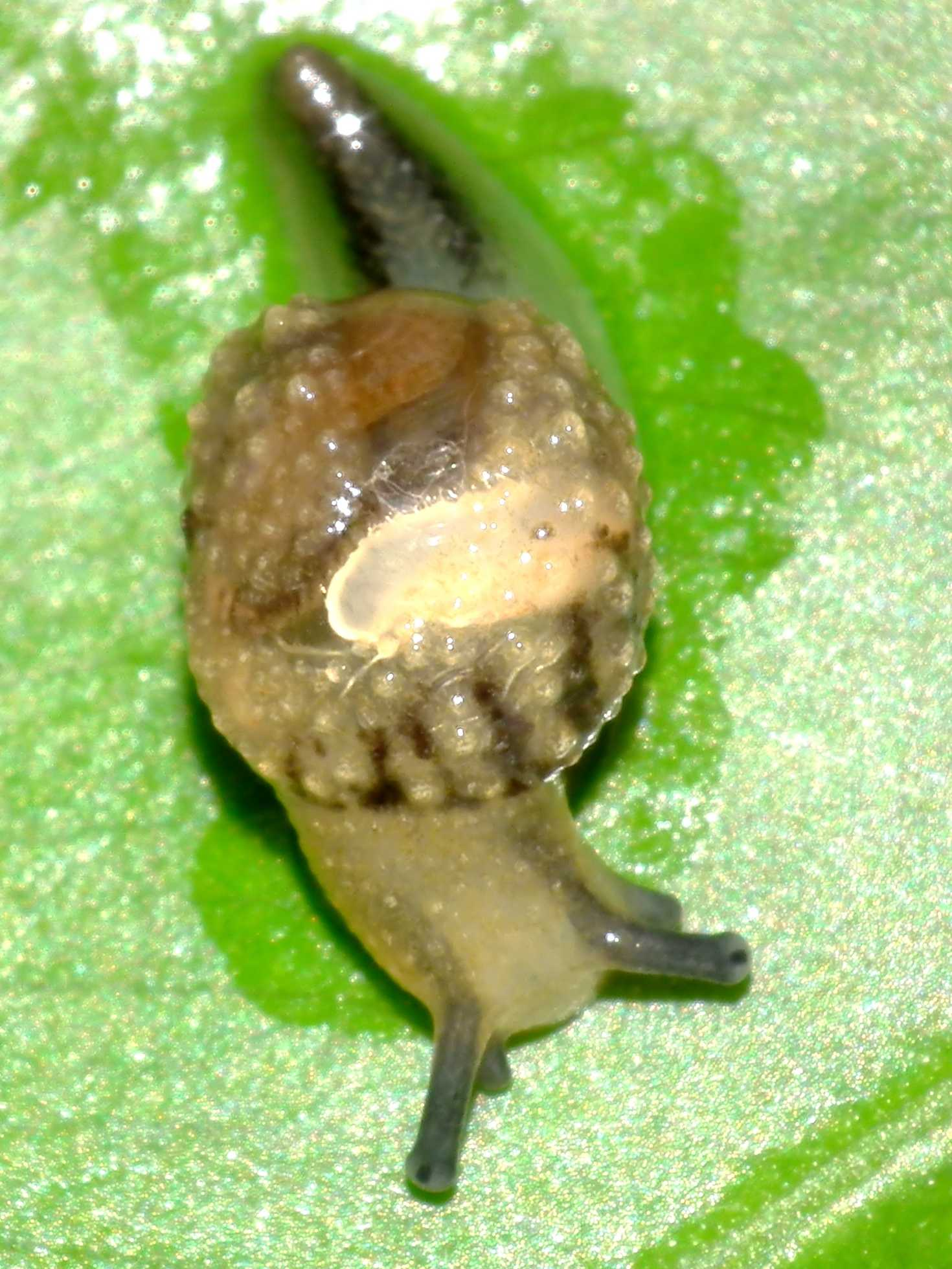 an unidentified gastropod from Hong Kong. Locality: Siu Lek Yuen, Hong Kong.